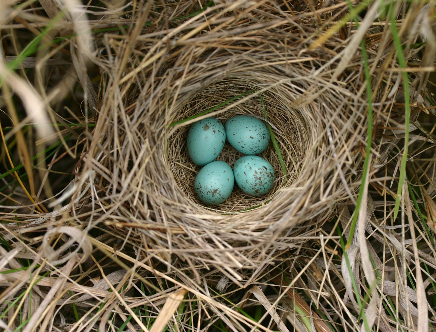 Nest and eggs of Clay-colored Sparrow (Spizella pallida), USA